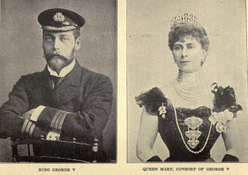 King George V and Queen Mary, circa 1901. Although the images are labeled King and Queen, the images were older images republished with their new titles; the one of Mary specifically dates from their 1901 tour of Canada, wearing mourning for Queen Victoria.